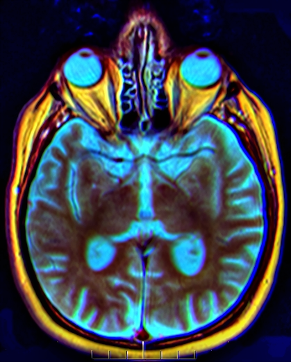 False color brain MRI, Red T1, Green T2, Blue T2-STIR. Showing Optic chiasm